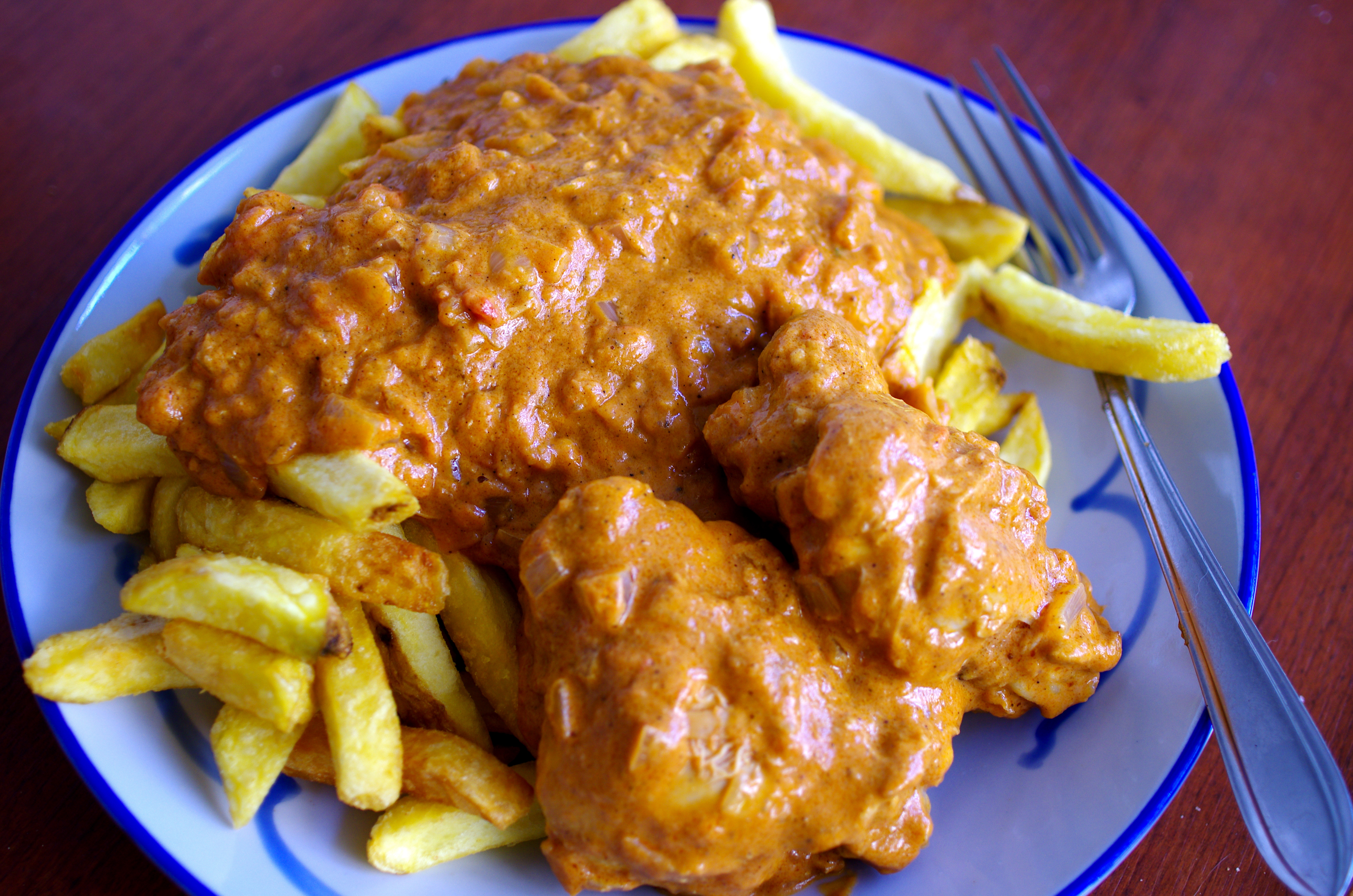 Chicken Moambe with French fries